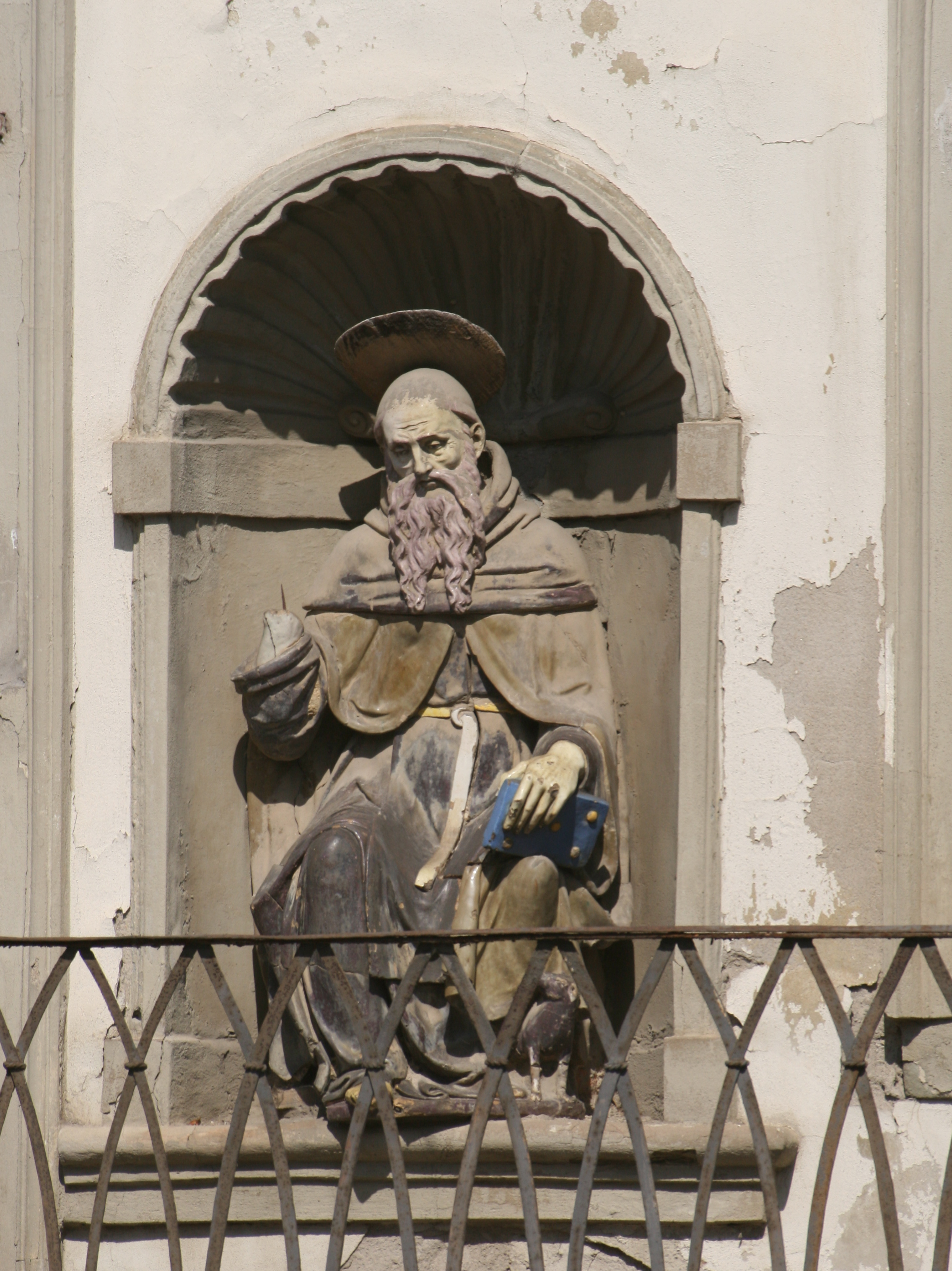 St. Anthony statue